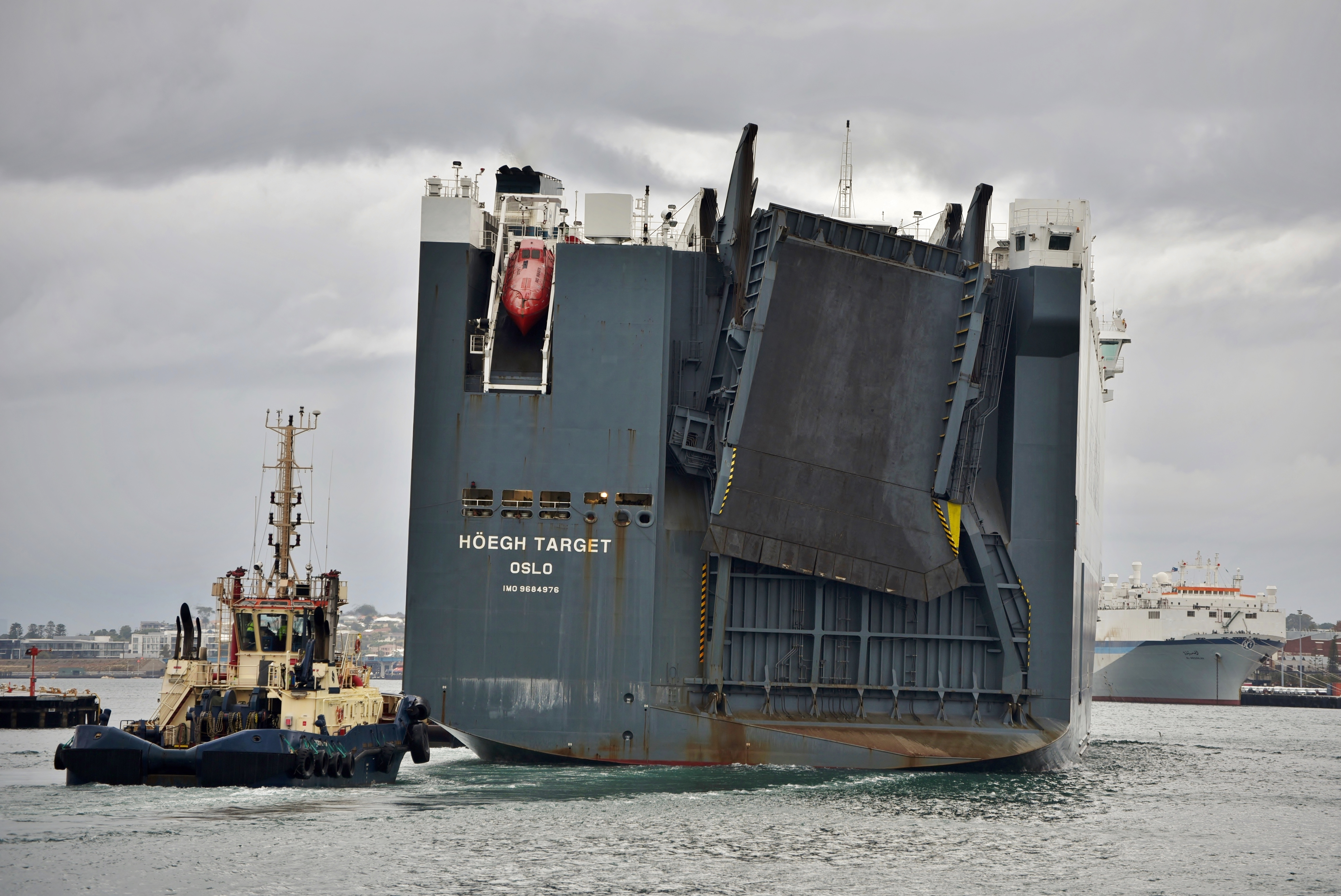 Car carrier Höegh Target entering the inner harbour of the Port of Fremantle, Western Australia, with a liner service from Europe via Durban - next stop: Melbourne